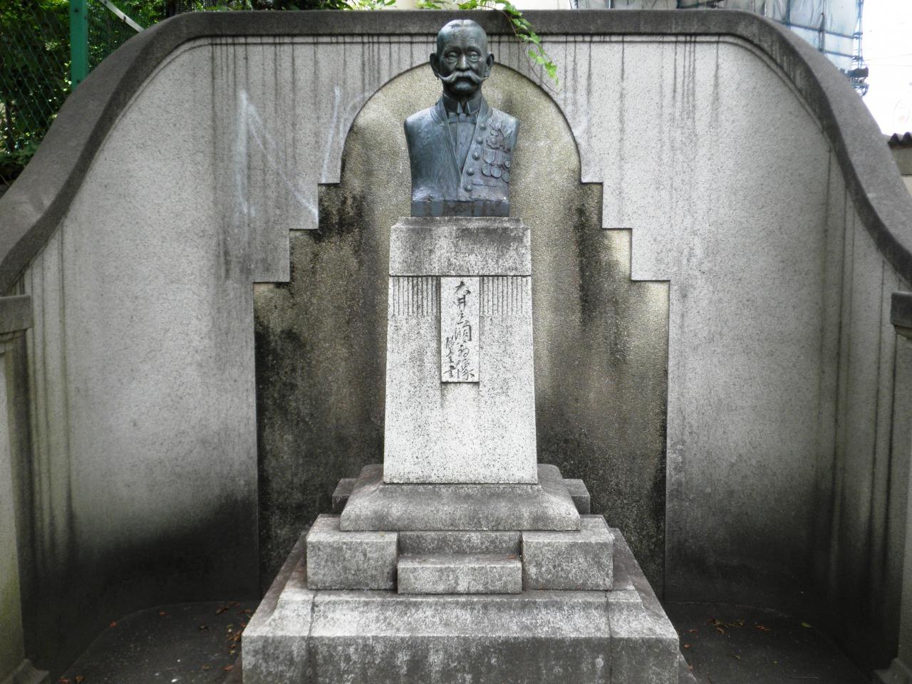 Bust of Ōi Gendō at Edogawa Park in Bunkyo, Tokyo.